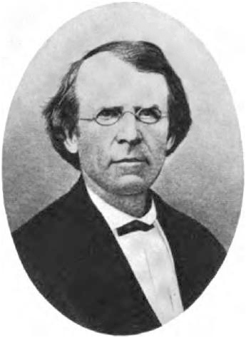 Charles Henry Hardin, University of Miami(Ohio) class of 1841, Governor of Missouri (1875-1877).